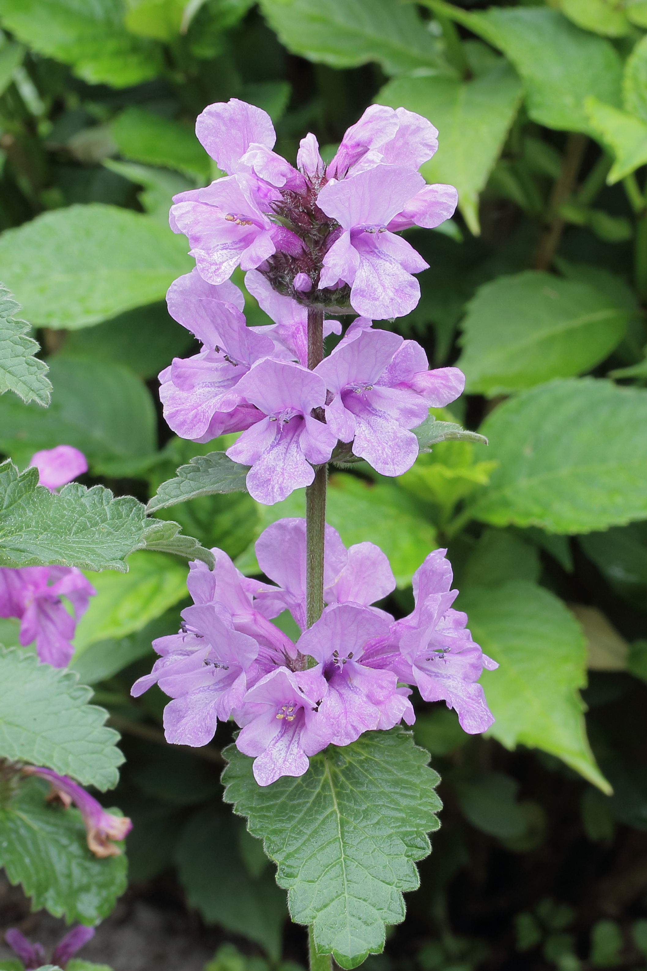 Stachys macrantha 'Superba'. Beautiful in a natural garden.